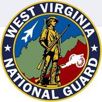 Logo of the West Virginia National Guard